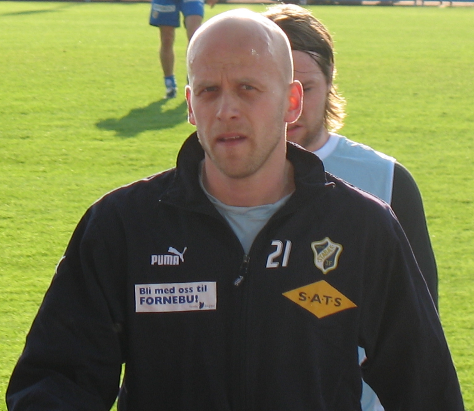 Norwegian footballer Tommy Stenersen.